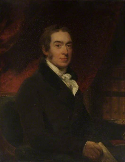 Portrait of John Vivian (1756–1828), English barrister, from 1816 owner of of Claverton Manor.